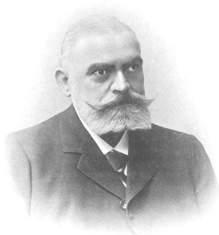 Carl Fürstner